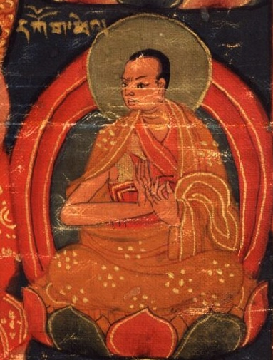 Konchok Pelden, b.1526 - d.1590, Twelfth Ngor Khenchen